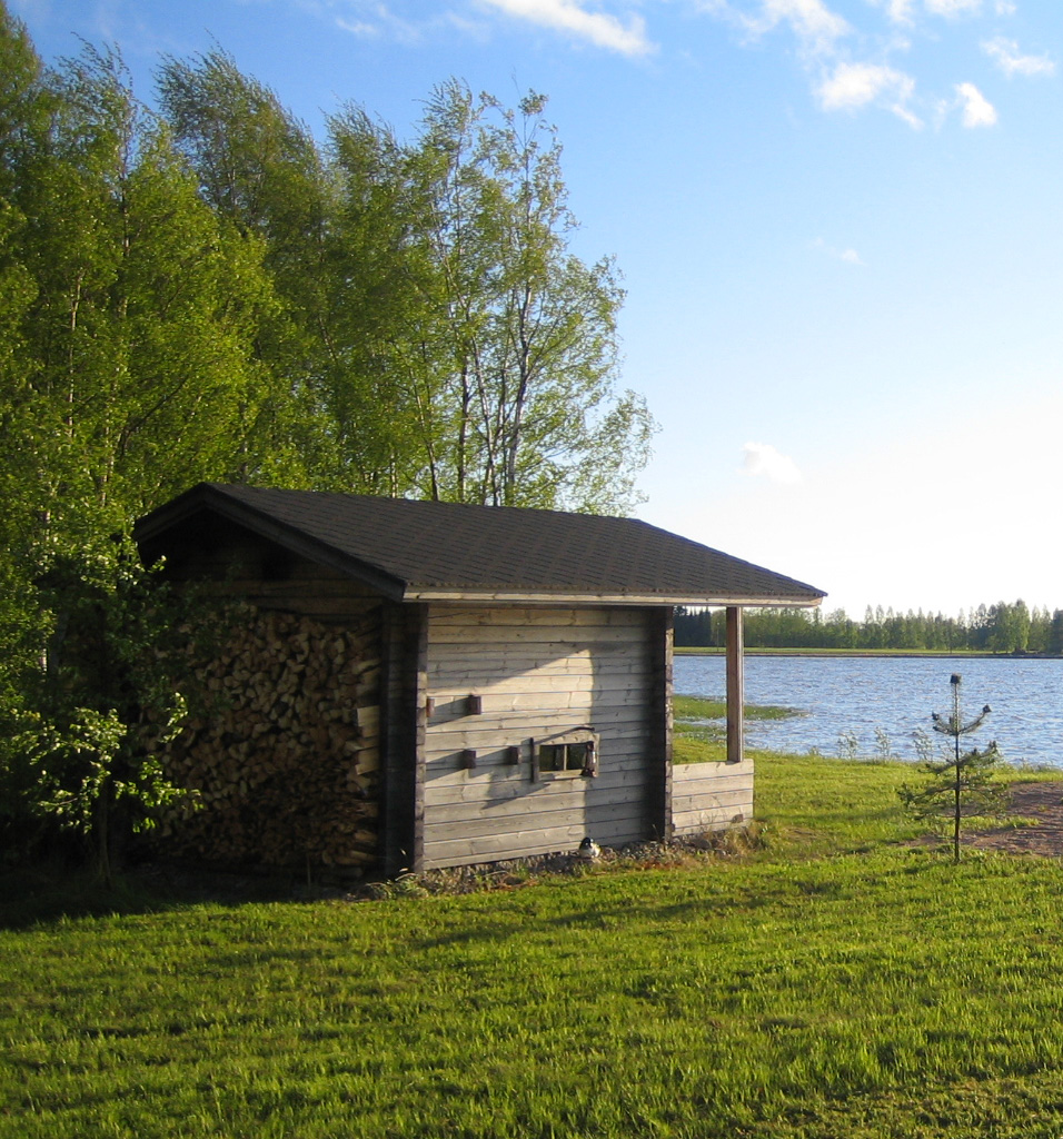 Finnish sauna without pipe "Smoke sauna" or "savusauna" in Finnish language. Smoke goes out through little hole in back wall.